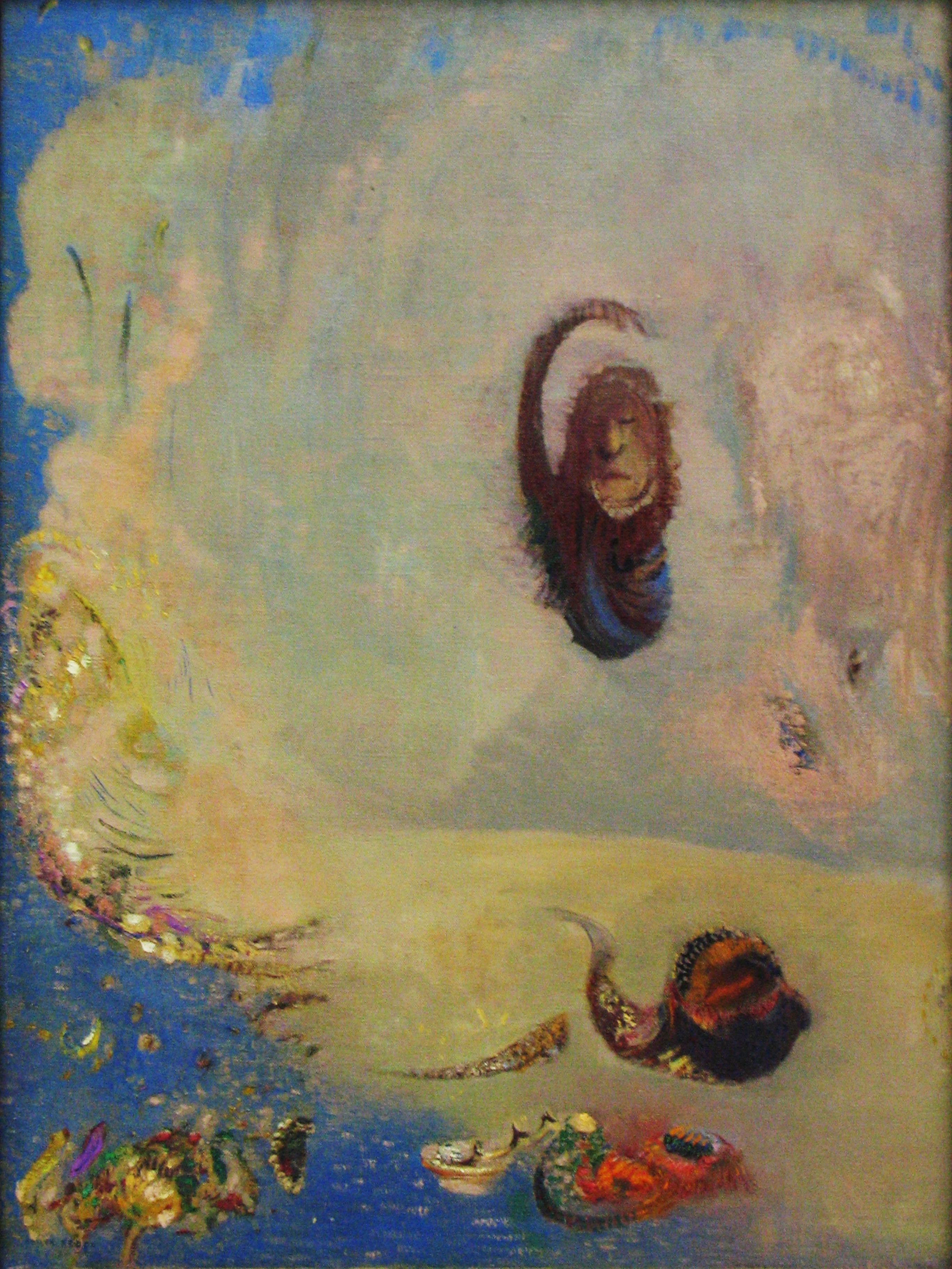 Oannes (Adapa)